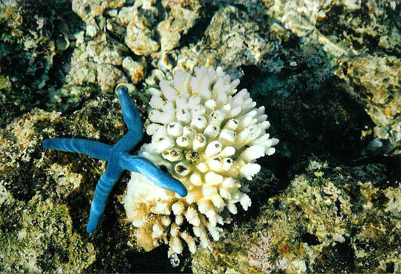 Reef on the Rarotonga coast - Cook Islands, 2000